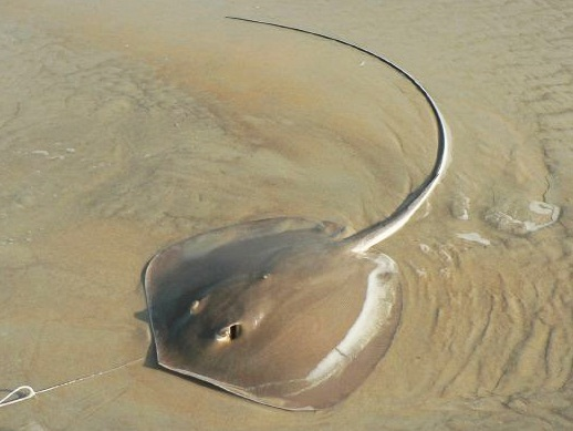 Jenkins' stingray (Himantura jenkinsii) on a beach in Goa, India.